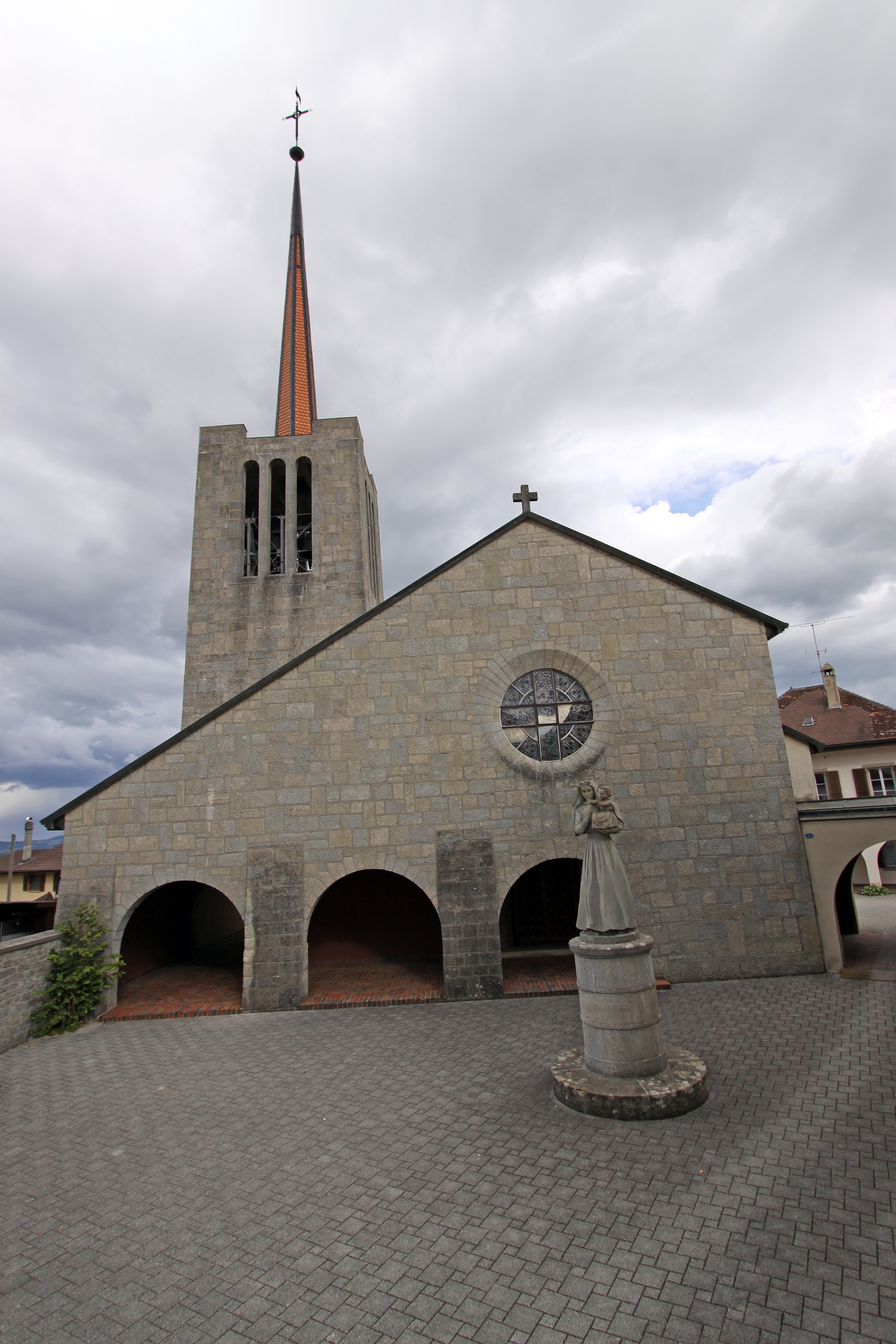 St. Maurice's Church, Route des Baudèzes 4, Bussy